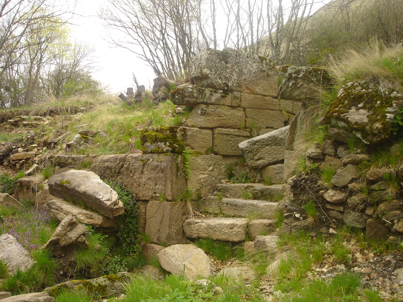 Ruins of the ancient Macedonian city Pelagon on the Visoka peak, Macedonia